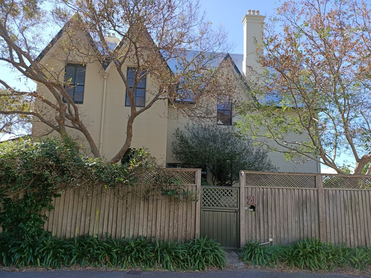 A notable local building due to its association with the Merewether family and its use as a hospital by the Salvation Army. It was taken on the 11/5/2020 around midday.